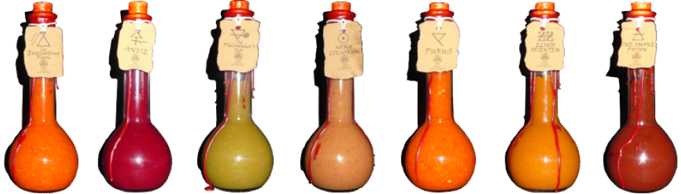 Depictions of vials of potions